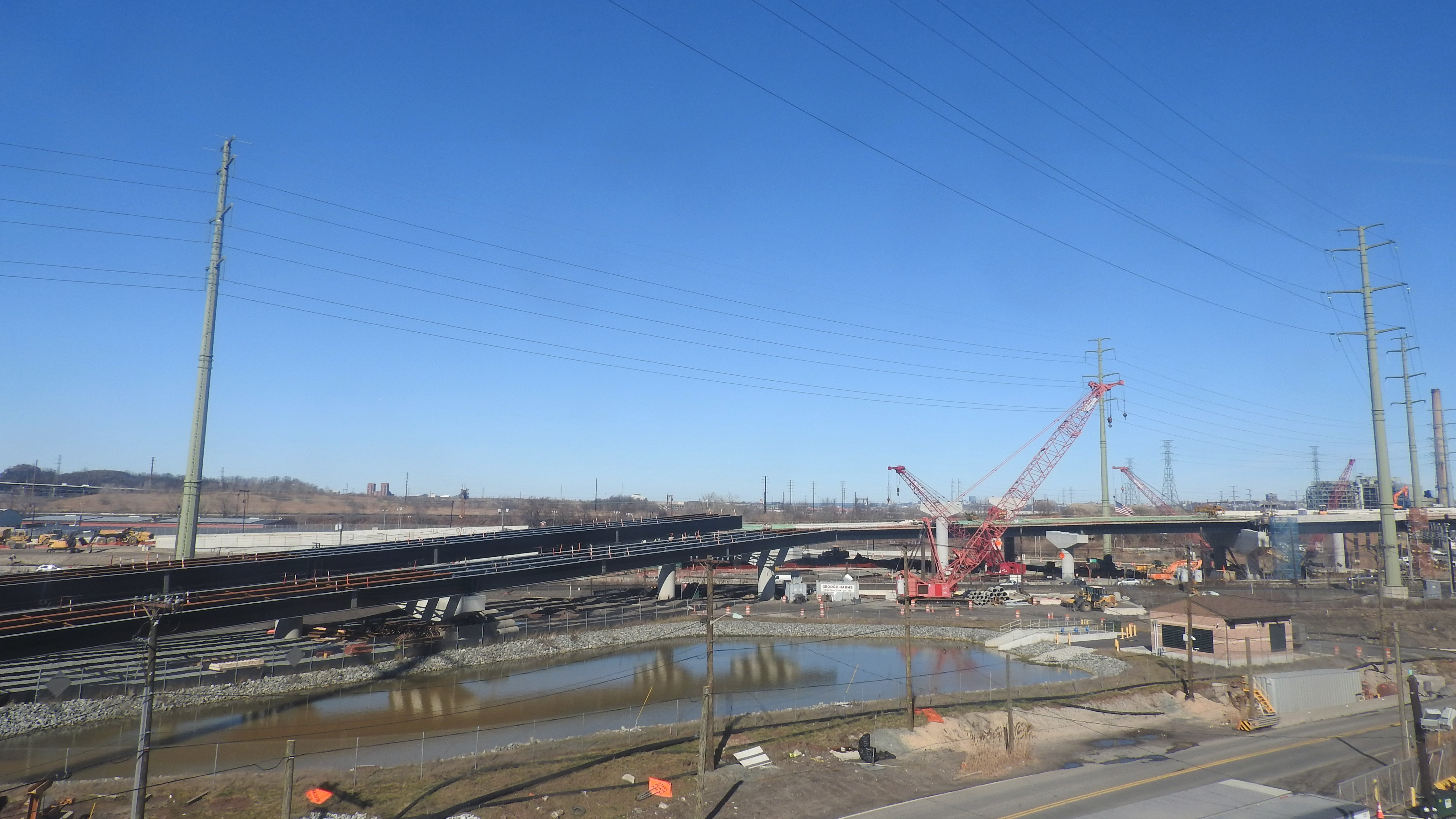 Looking northeast from PATH train at construction site of the new Route 7